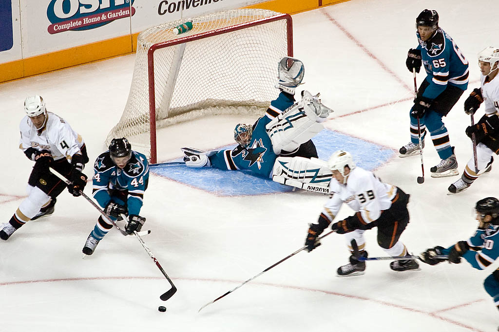 The San Jose Sharks vs. the Anaheim Ducks